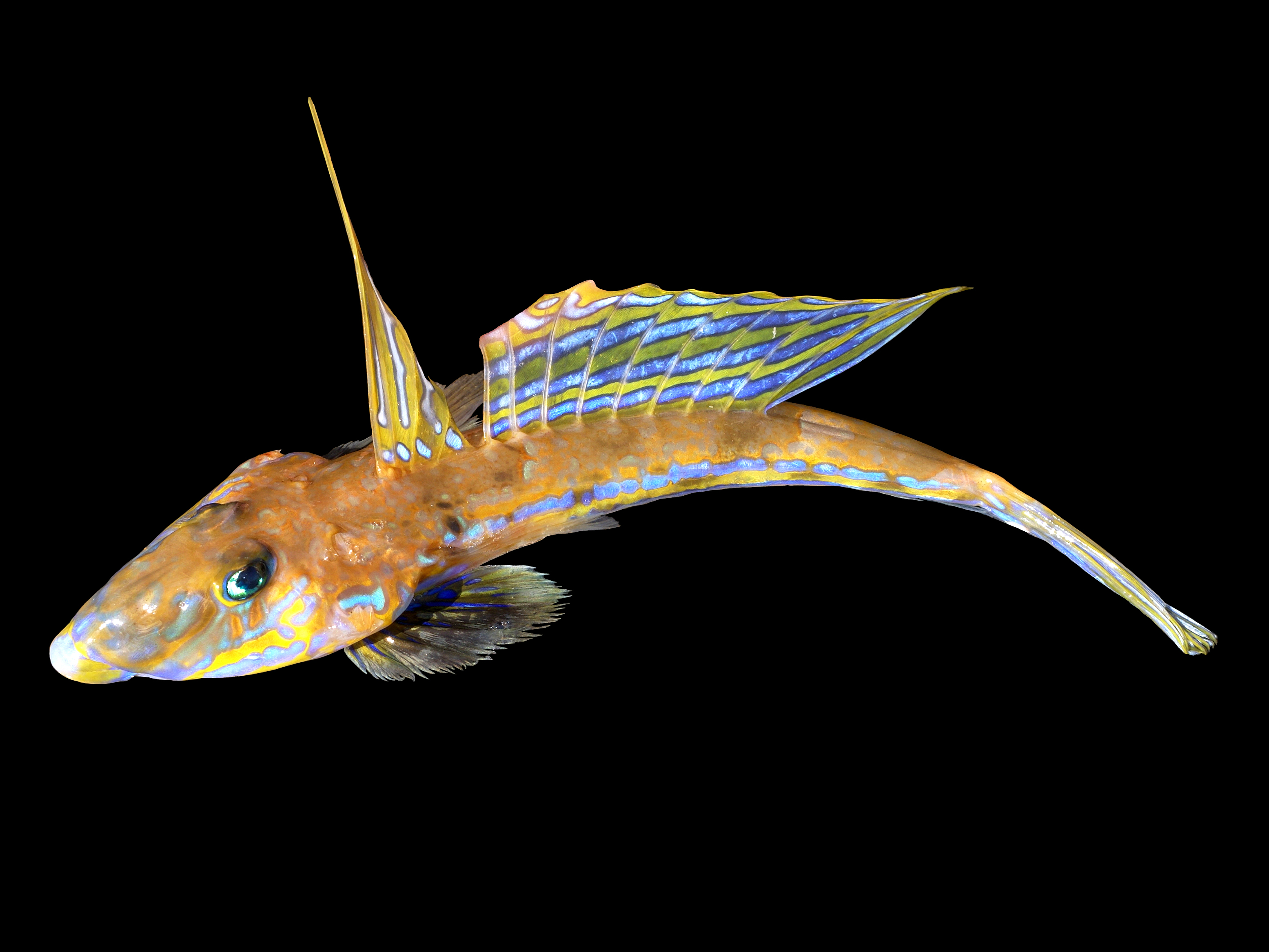 Common dragonet from the Fairy Bank in the Southern North Sea.Lab image.